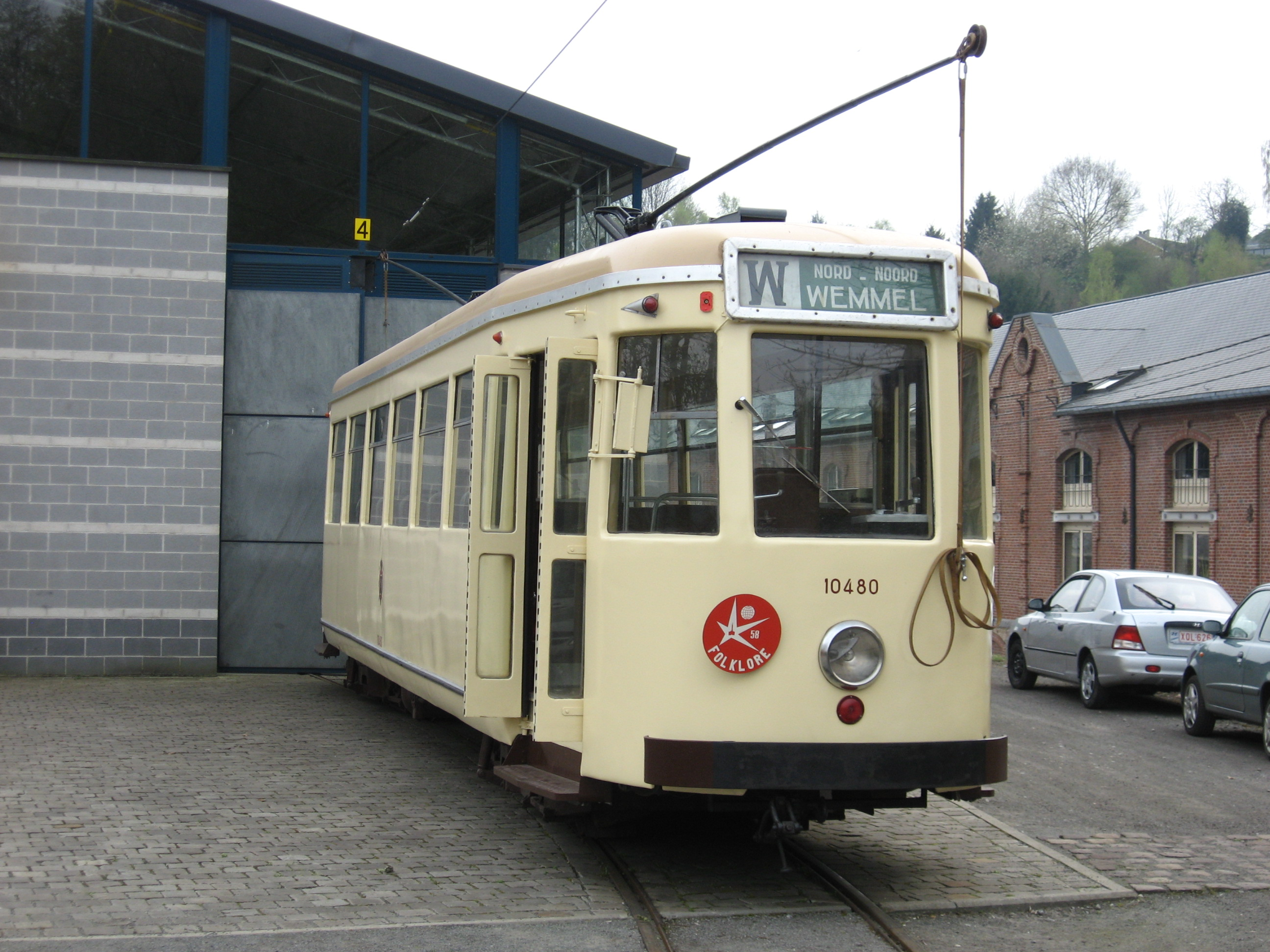 SNCV Type N tram parked in front of the museum building. Has recently been moved from a TEC depot. Was used in Brussels region on the last lines. It has a trolley.